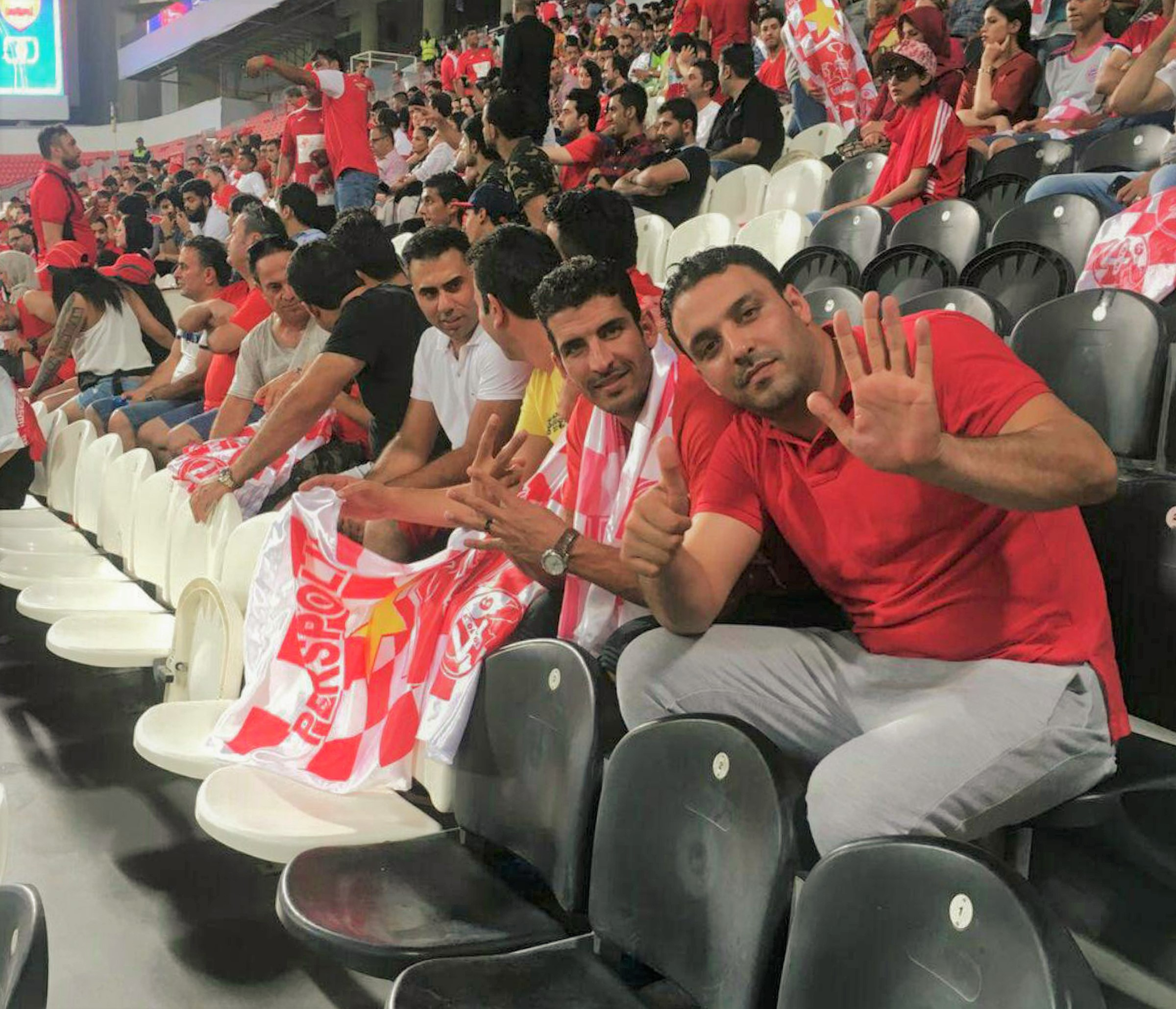 Supporters of Persepolis in Mohammed bin Zayed Stadium, 2018